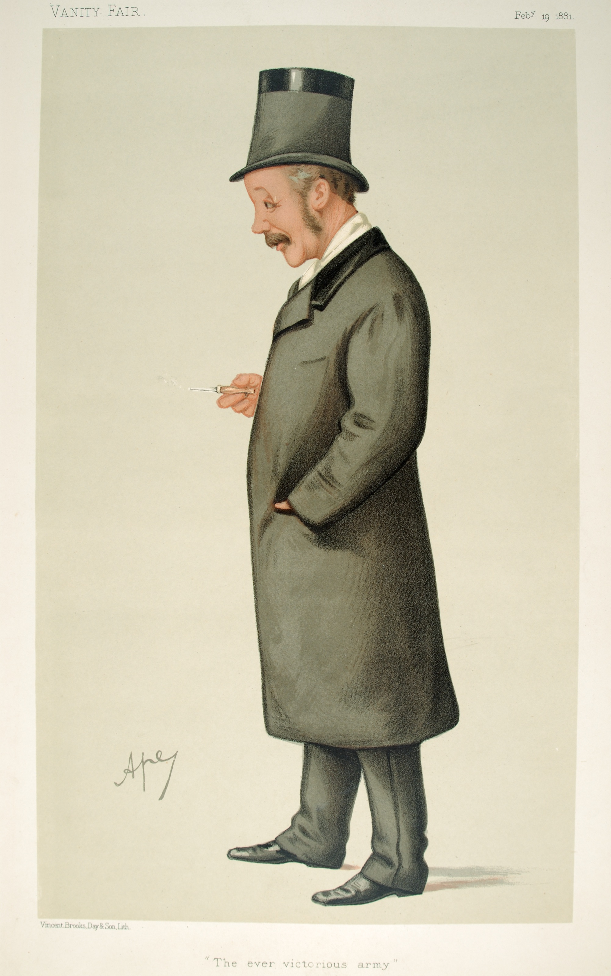 Men of the Day No.241: Caricature of Lt-Col Charles George Gordon CB RE. Caption reads: "The ever victorious army"